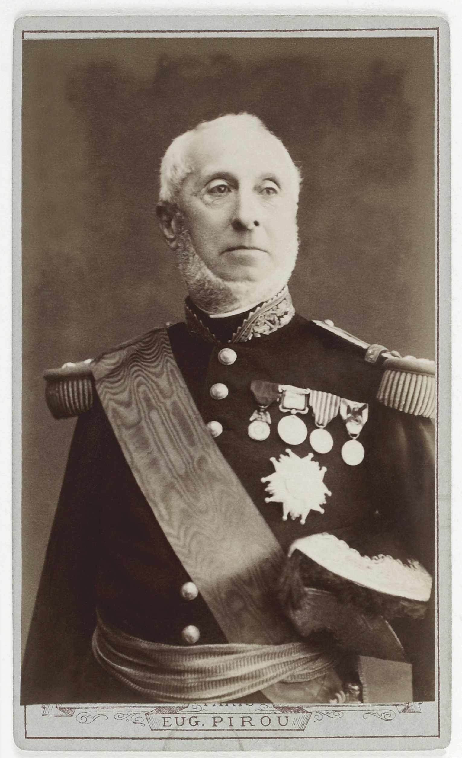 Edmond Jurien de La Gravière (1812-1892), french Admiral, member of the Académie des Sciences, and of the Académie Française.